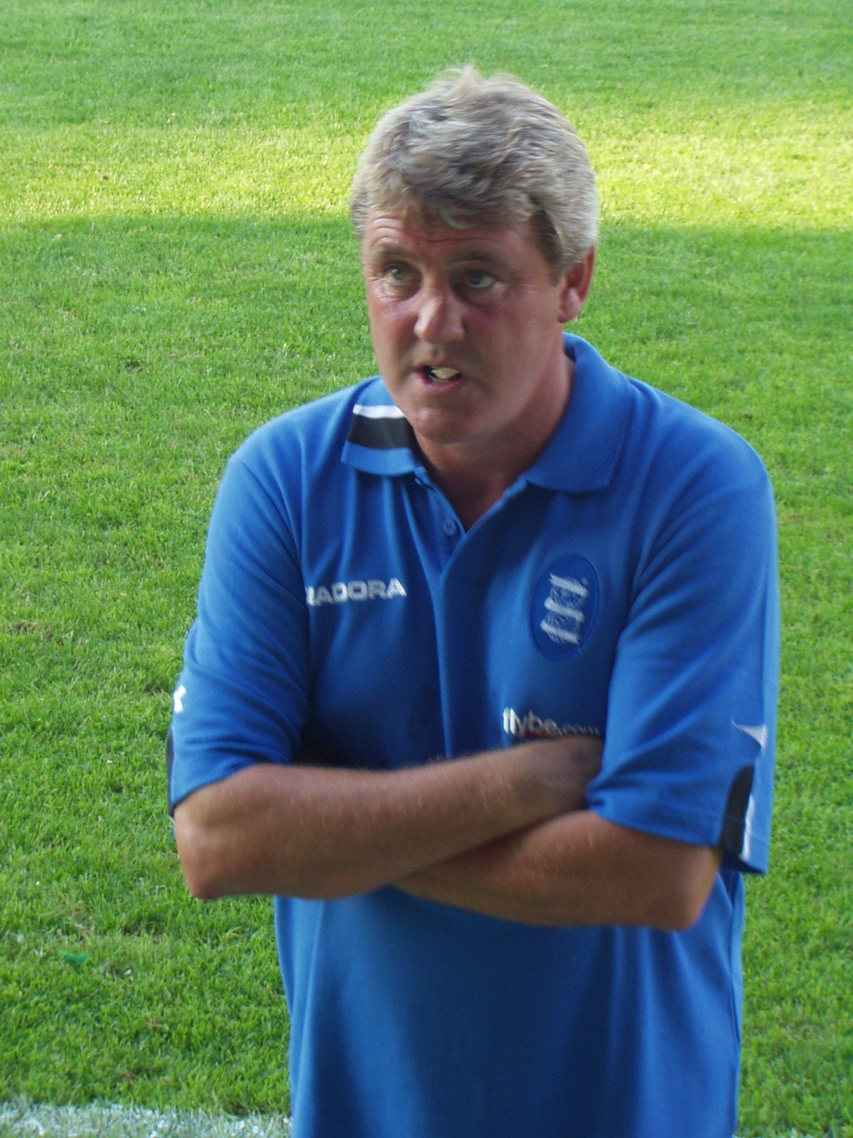 Football (soccer) manager Steve Bruce (then of Birmingham City F.C.) at a pre-season tournament at Weiden, Germany.